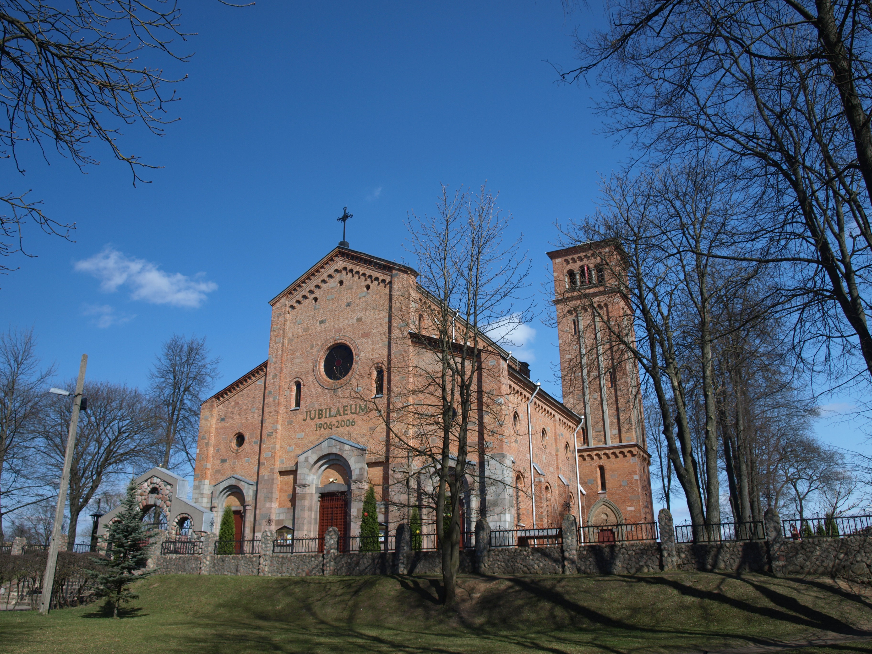 Lentvaris church, Trakai district, Lithuania